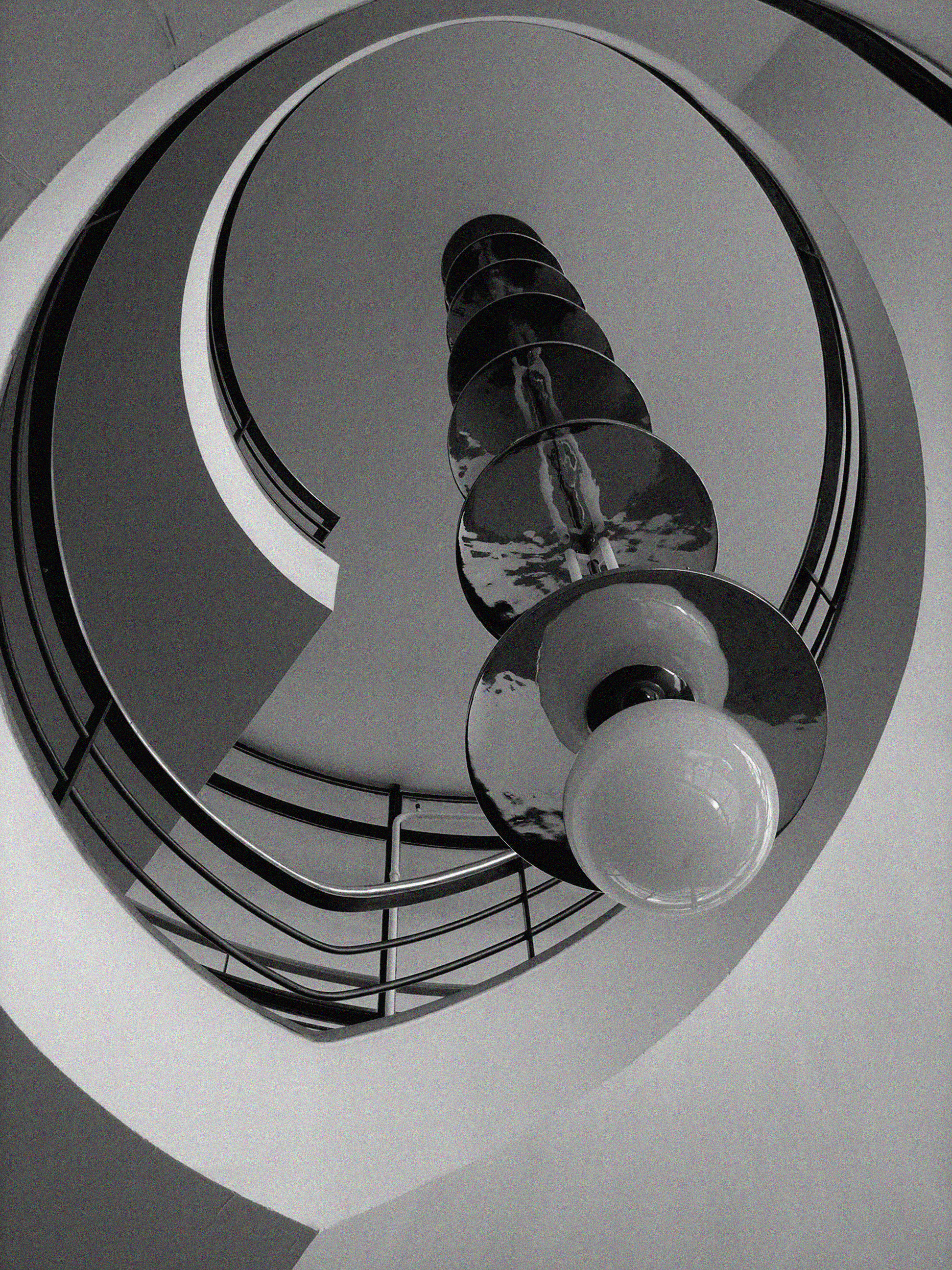 Spiral staircase of the De La Warr Pavilion, Bexhill, East Sussex